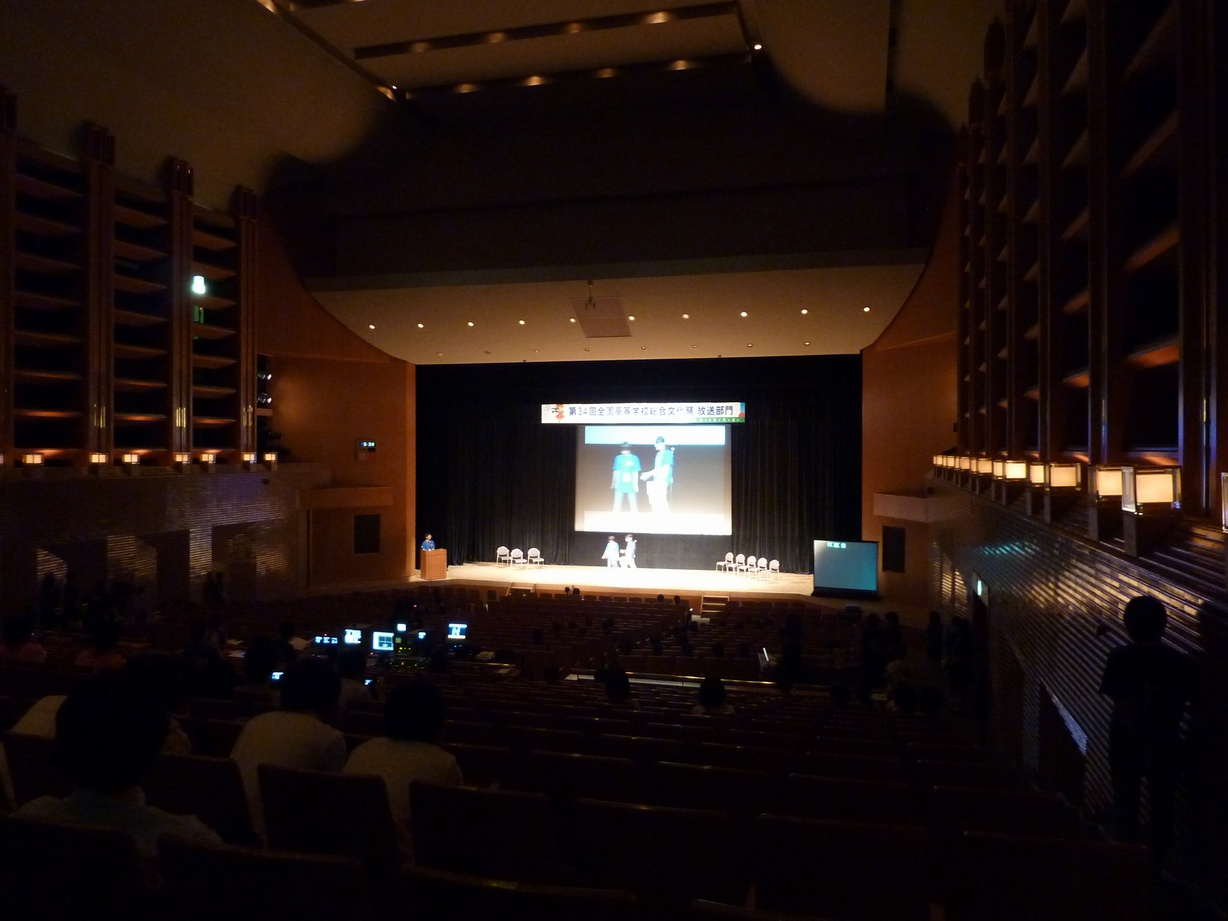 Kiyotake Cultural Arts Center - Hankyu hall (Miyazaki City, Japan)